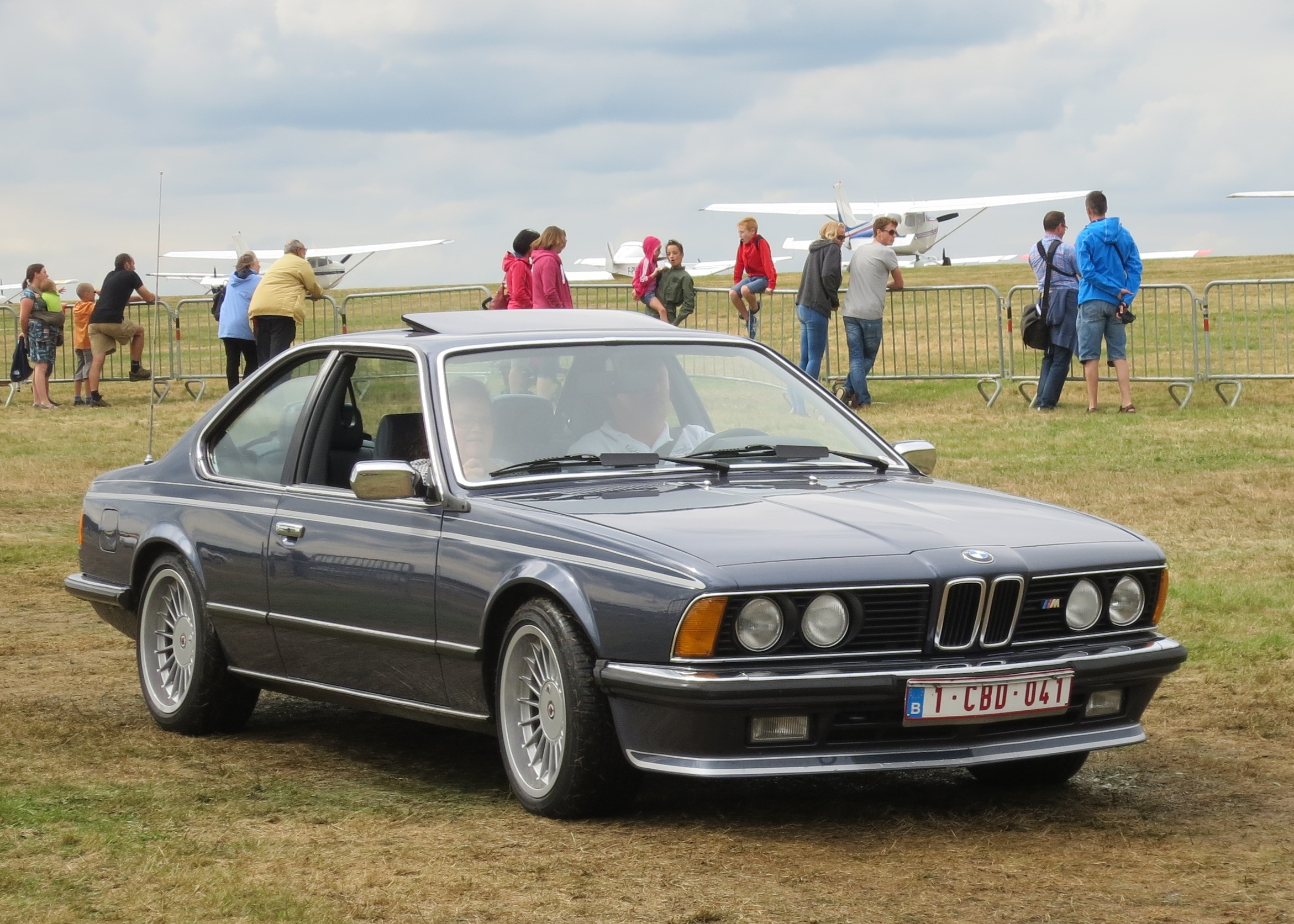 BMW M6 in Belgium